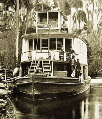 An 1890s photo of the tourist steamer Okahumkee on the Ocklawaha River, with black guitarists on board This picture is the copyright of the Lordprice Collection and is reproduced on Wikipedia with their permission